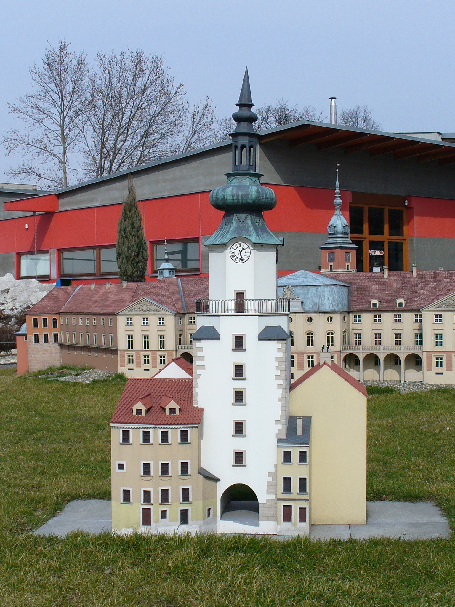 Replica of Michalska Gate (Bratislava) in Miniature park "Miniuni" in Ostrava